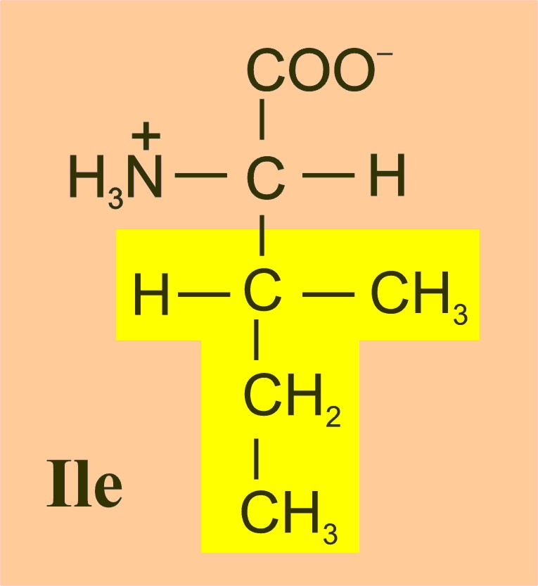 Isoleucine amino acid formula jpg